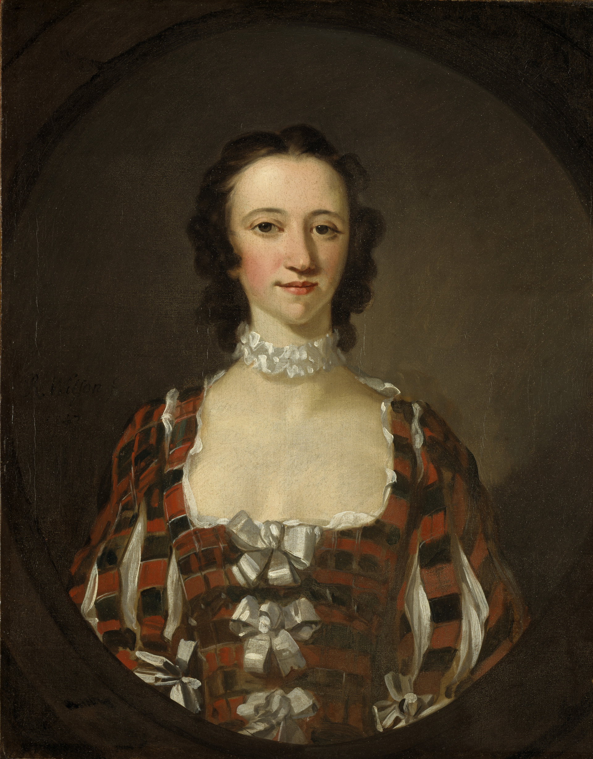 Portrait of Flora MacDonald (1722-1790) saved Bonnie Prince Charlie in July 1746